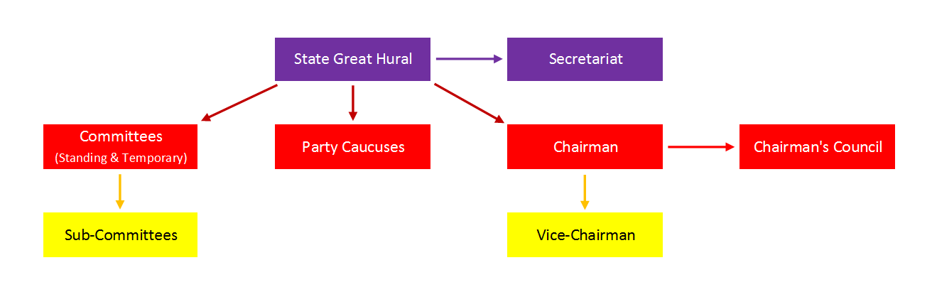 The structure of the main positions concerning the State Great Khural of Mongolia. Монгол: Монгол Улсын Их Хурал тухай гол албан тушаалд бүтэц.